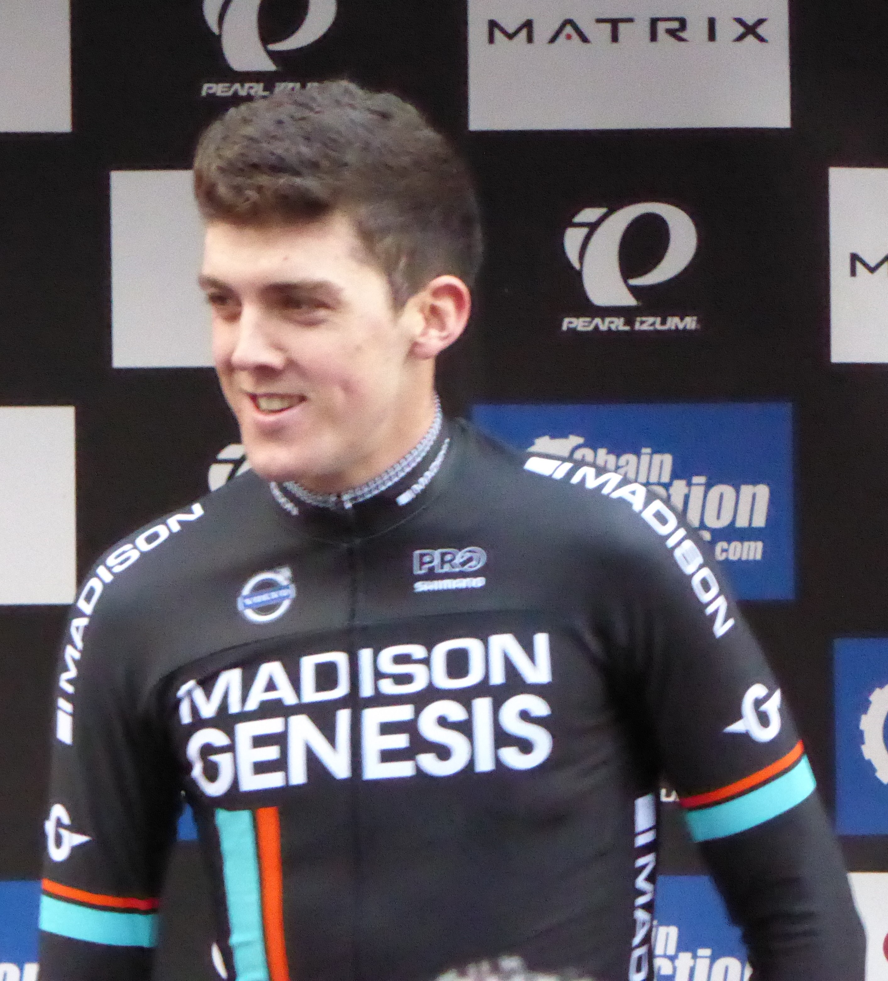 Tom Scully, after Round 4 of the Pearl Izumi Tour Series in Motherwell, on 26 May 2015